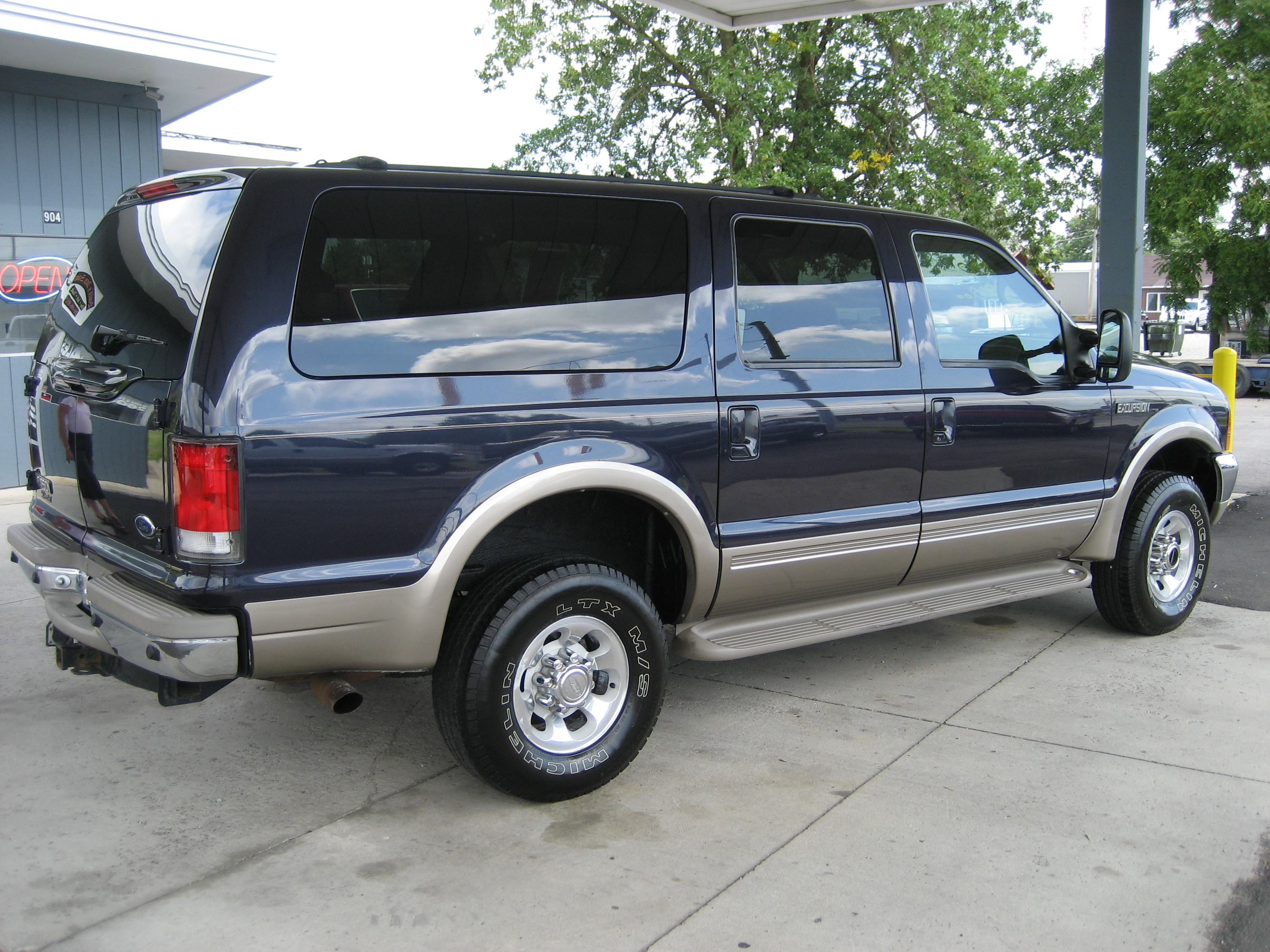 2001 Ford Excursion 4x4